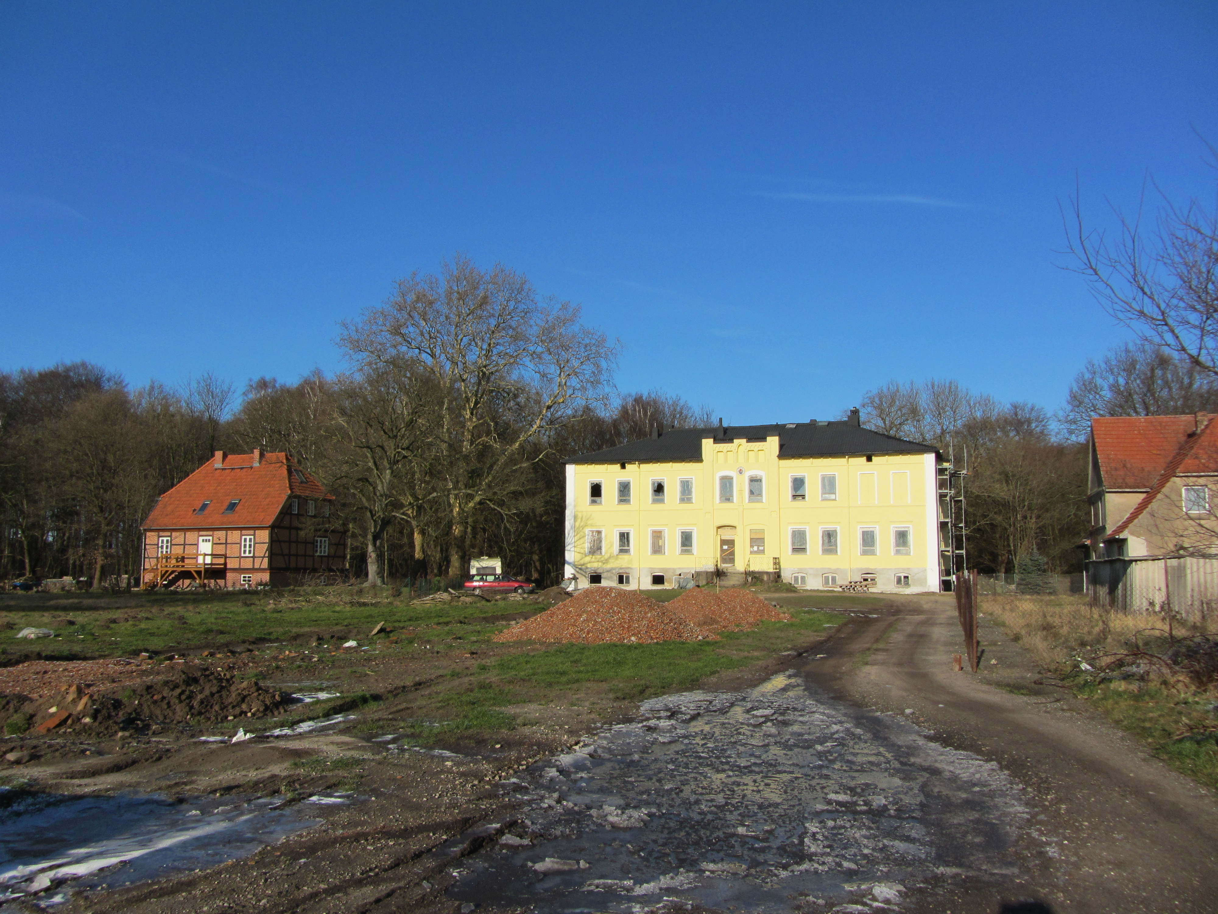 Former warehouse and manor house in Spriehusen, district Nordwestmecklenburg, Mecklenburg-Vorpommern, Germany